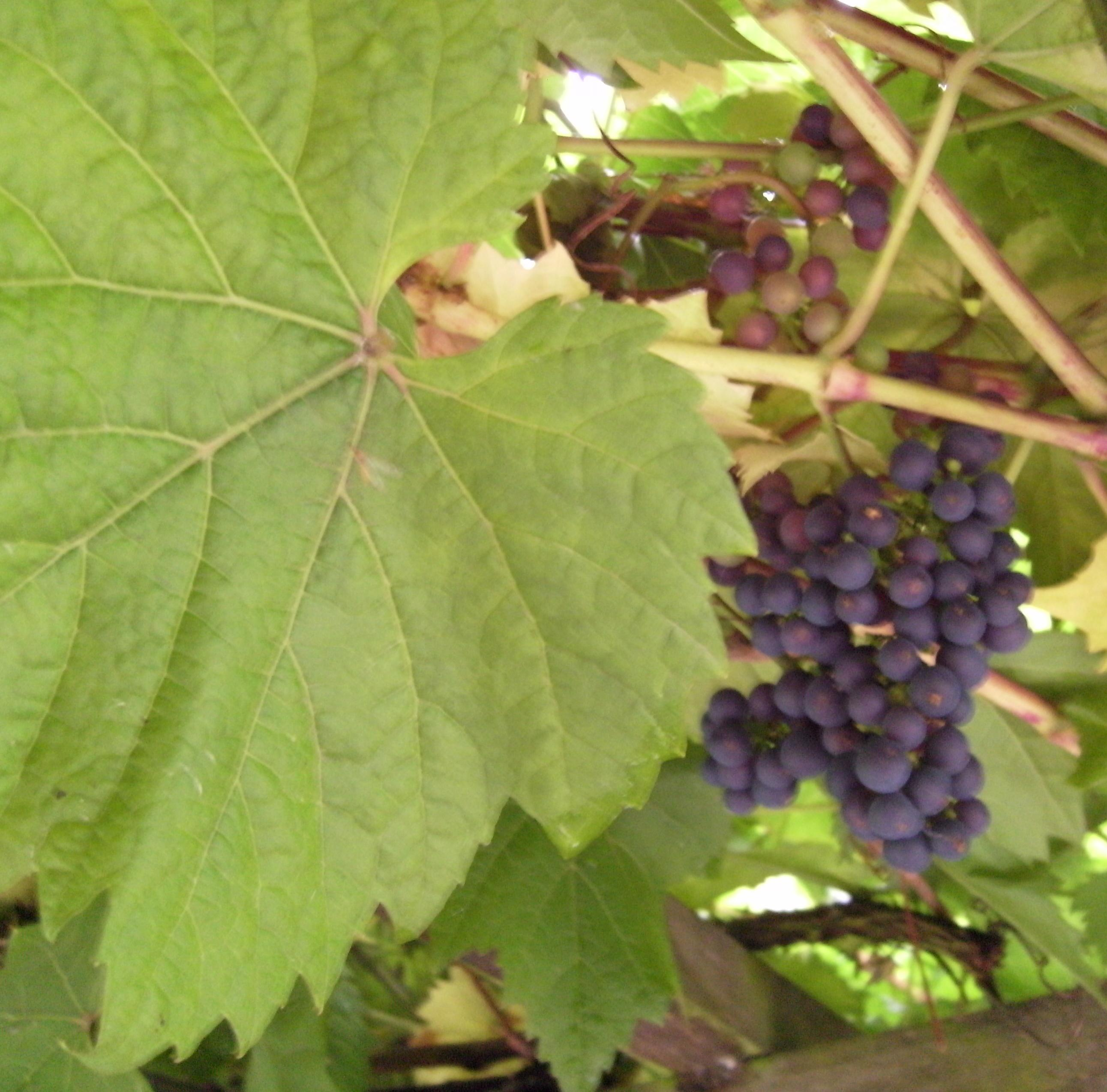 Fruit and leaf of the Triomphe d'Alsace red wine grape